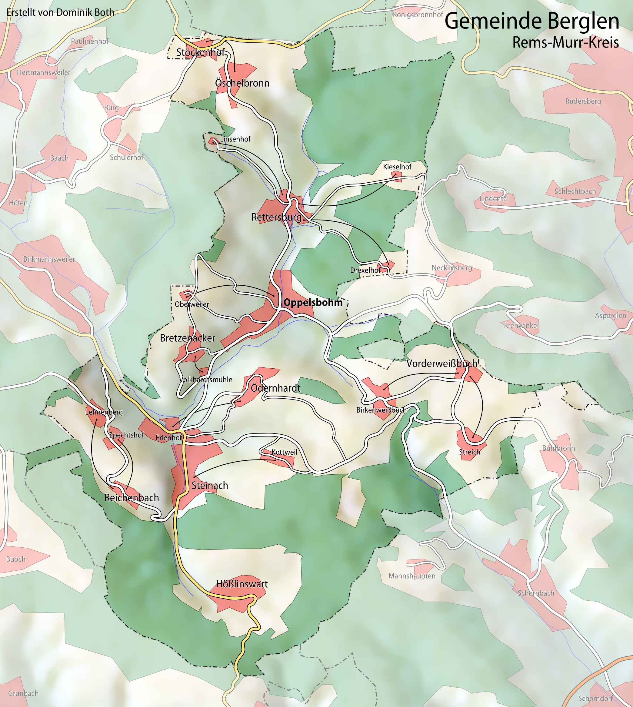 Map of the German Village Berglen, near Stuttgart